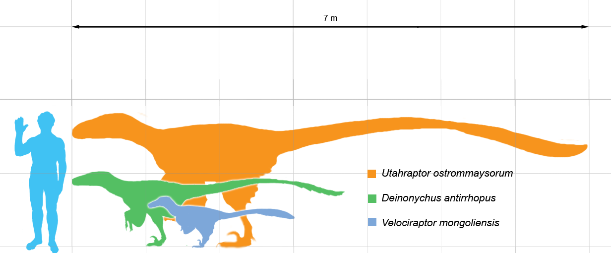 Size comparison of the ornithodesmid (=dromaeosaurid) dinosaurs Utahraptor ostrommaysorum (orange), Deinonychus antirhhopus (green), and Velociraptor mongoliensis (blue), with a human. Based on the largest described specimens.